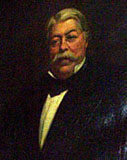 Ludwig Andreas Jordan (1811 - 1883)